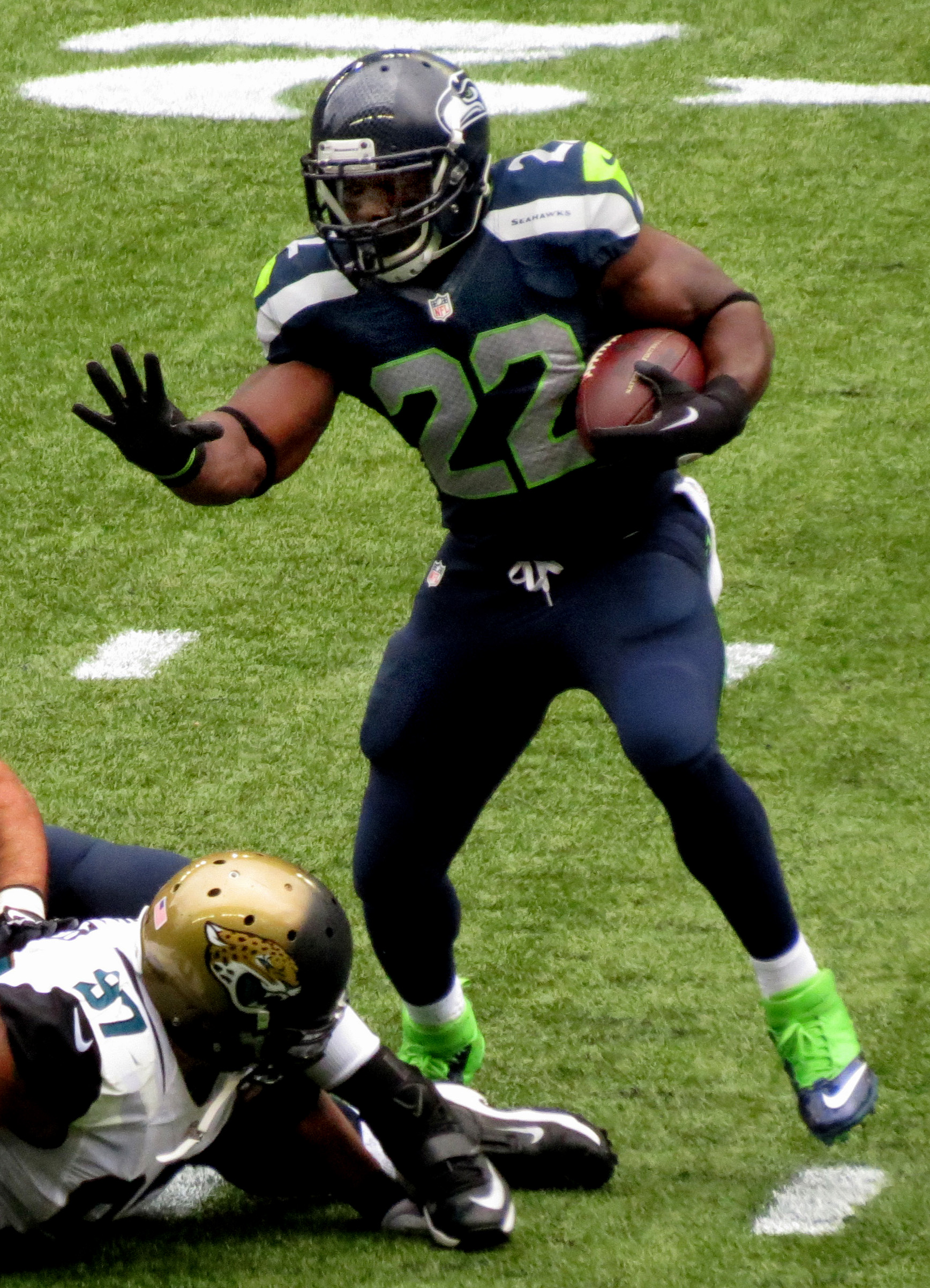 Robert Turbin carries the ball against the Jacksonville Jaguars in Week 3 of the 2013 season.